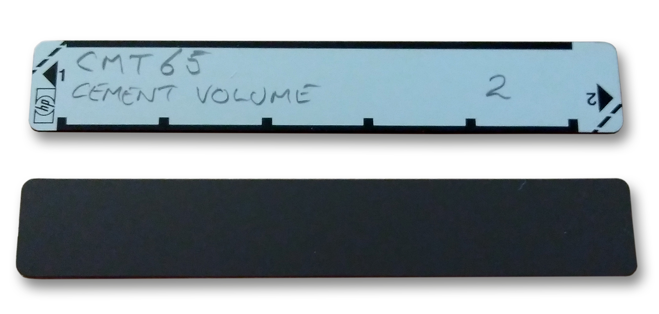 HP programmable calculators 41, 65, 67/97 magnetic card